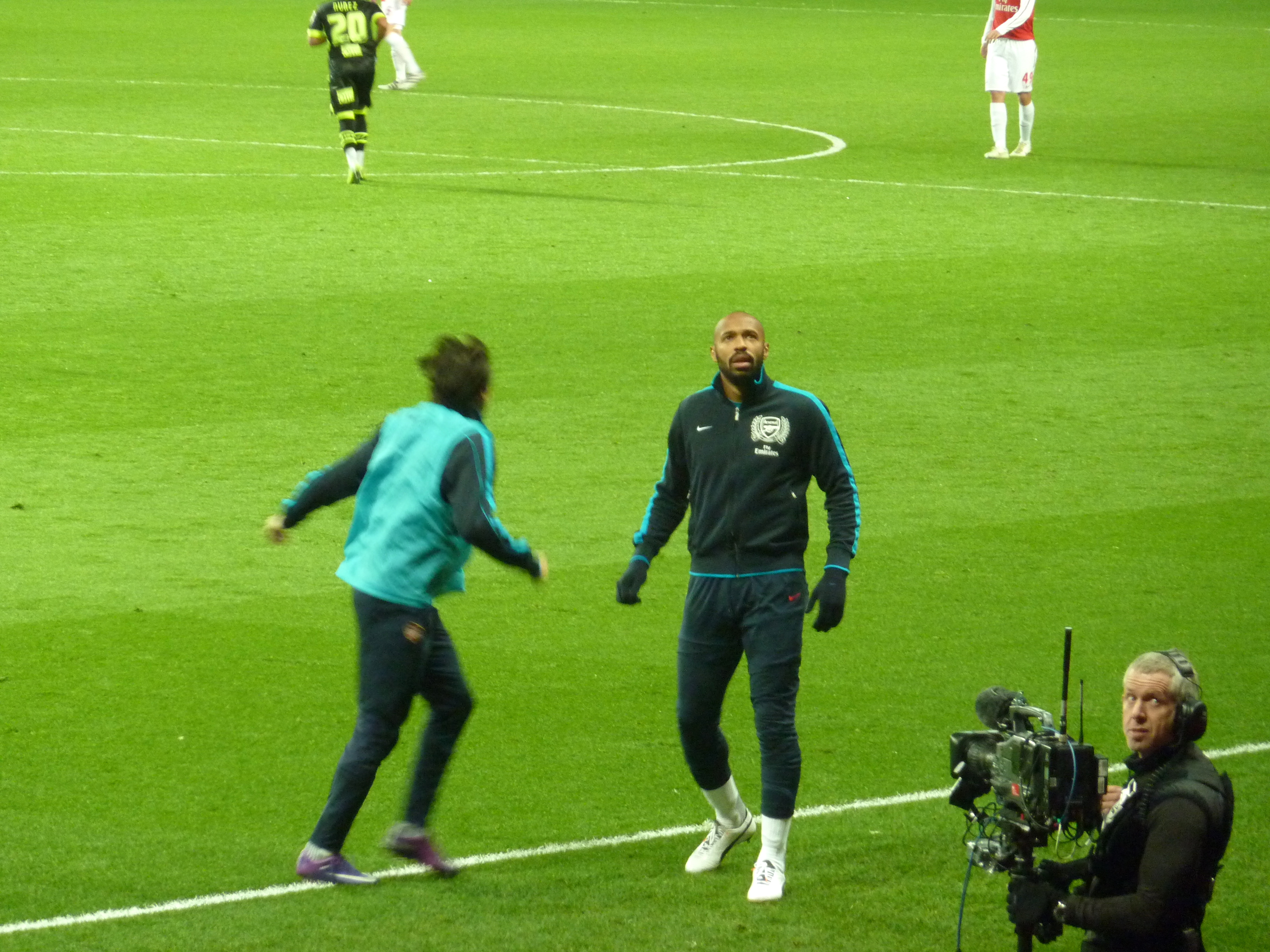 Thierry Henry warms up on his return to Arsenal on loan in 2012.